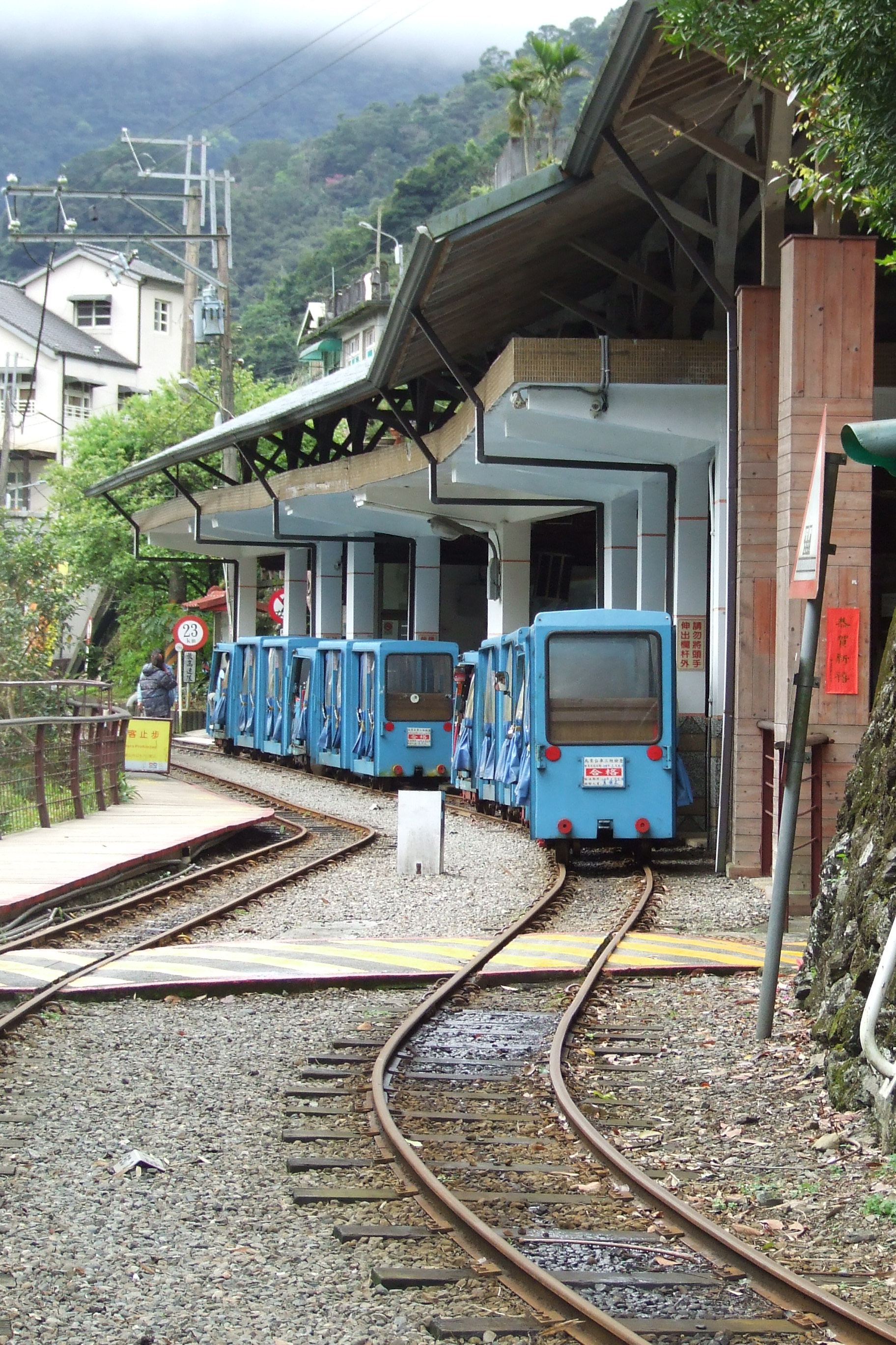 Wulai stop, Taiwan (R.O.C.)